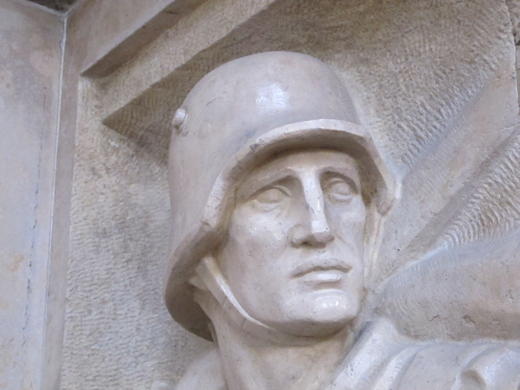 Pulpit of the Herz-Jesu church in Augsburg, detail (soldier)